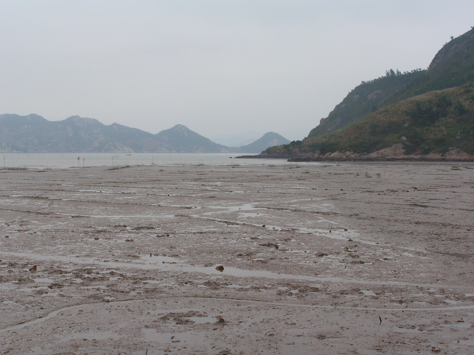 Coastal mudflat outside of Jian-jiang town in Luoyuan County, Fuzhou, Fujian Province of China